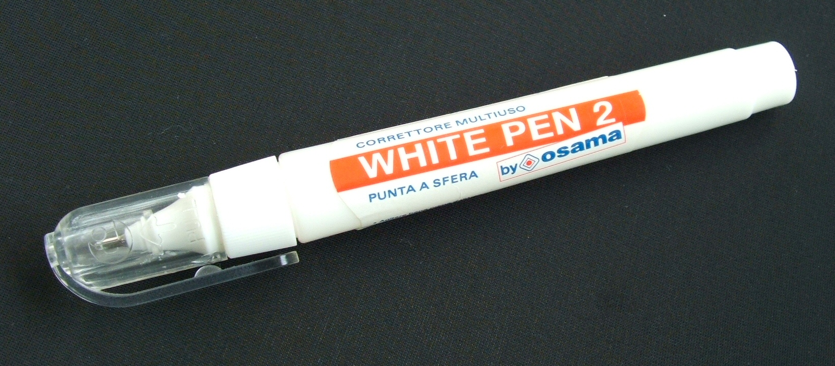 Correction pens